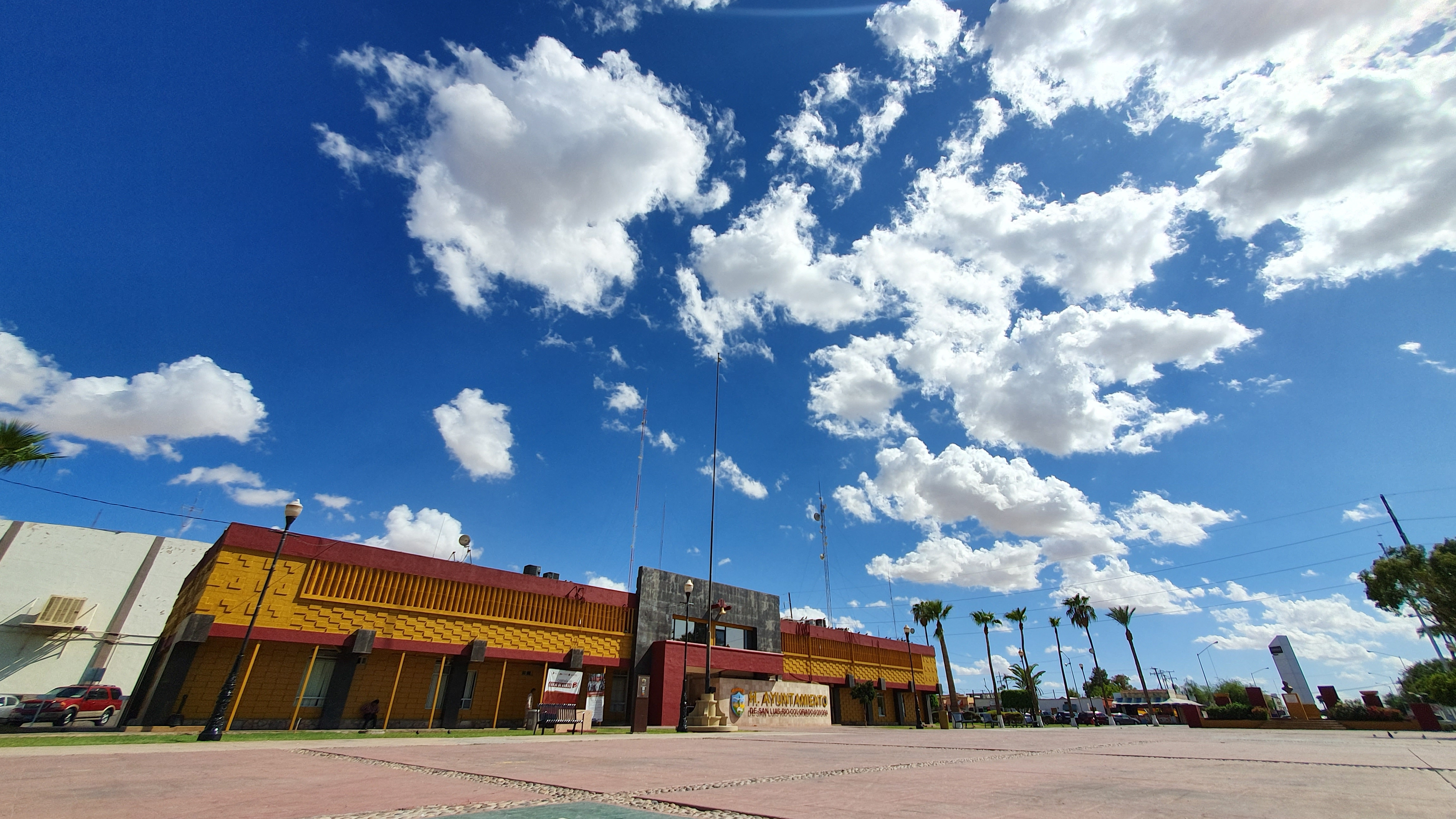 Vista de Palacio Municipal tomada desde la Explanada Municipal de San Luis Río Colorado